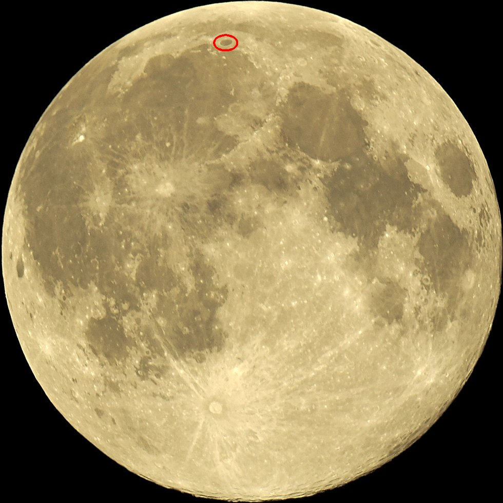 Location of crater Plato on the Moon